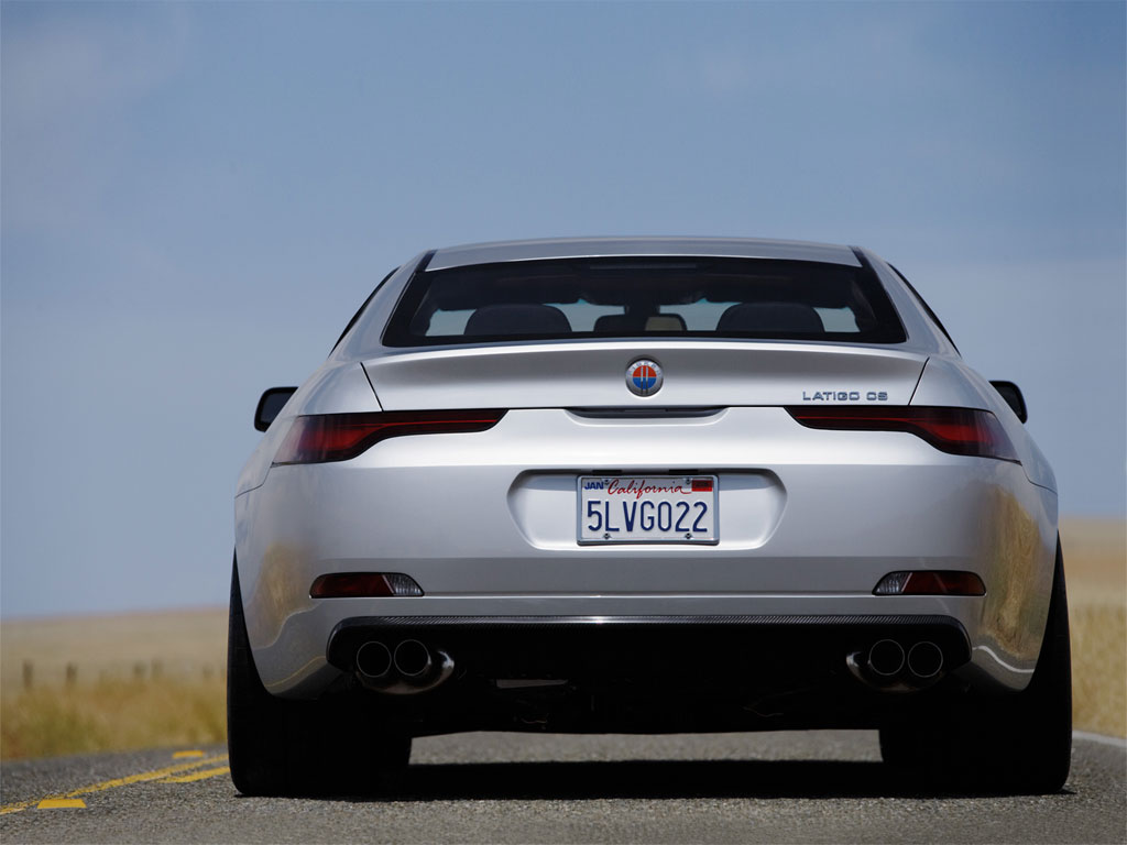 Designed by Henrik Fisker, based on the 6-series BMW (E63)